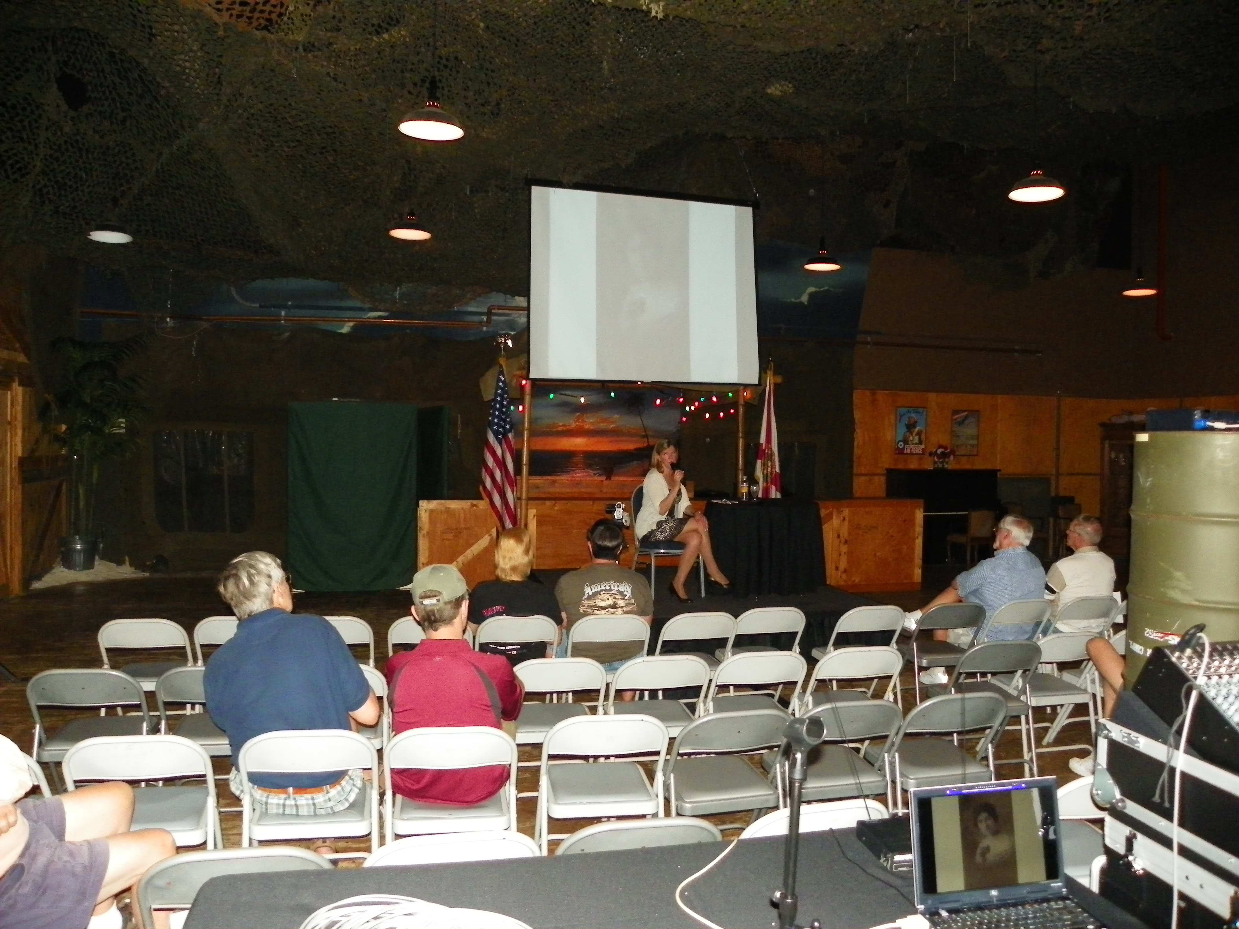 Author Jonna Doolittle Hoppes speaks at Fantasy of Flight's Officer's Club.